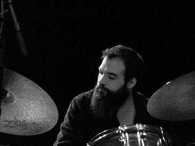 RJ Miller in Aarhus, Denmark